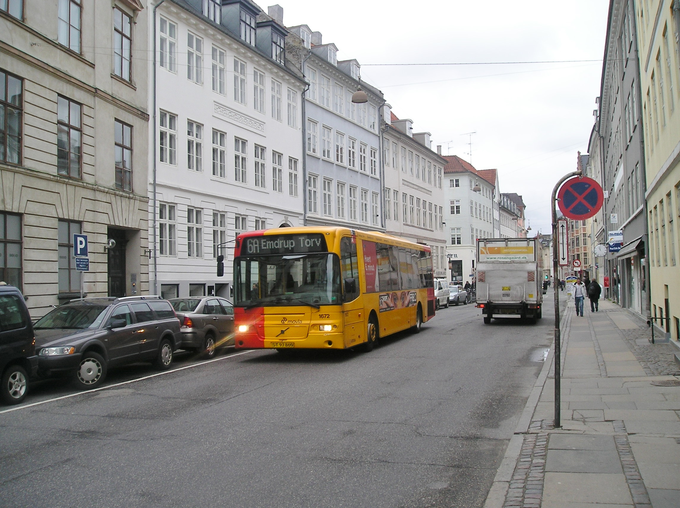 Movia bus line 6A on Rådhusstræde in Indre By in Copenhagen.